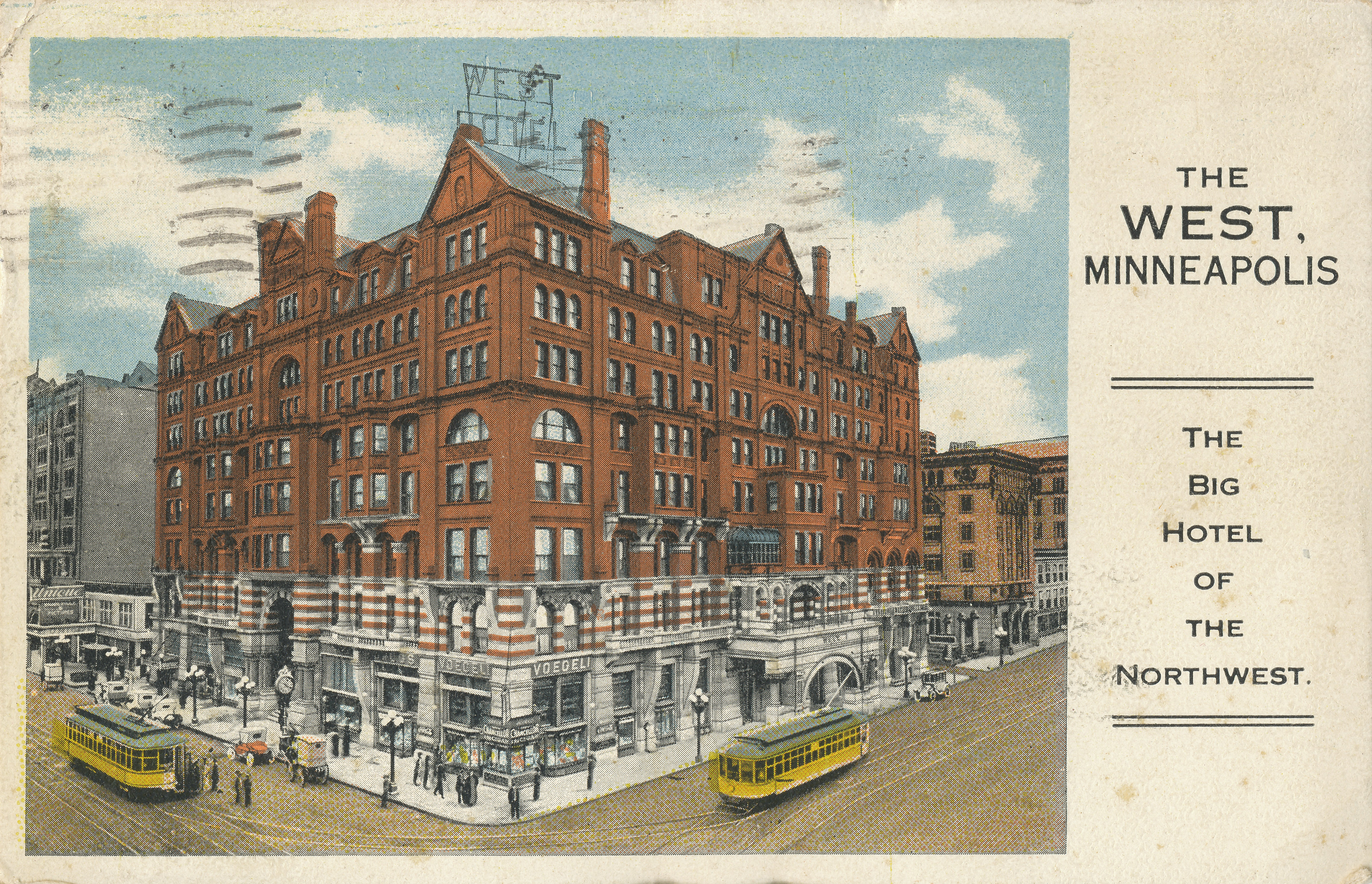 A postcard of the West Hotel, Minneapolis, MN from July 28, 1916